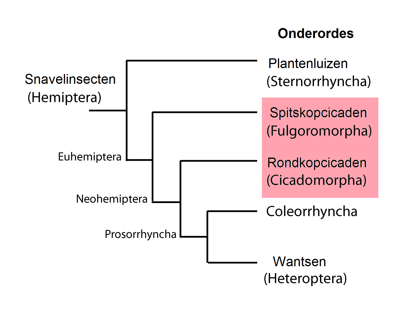 Summary == *Beschreibung / Description ** Cladogramm Hemiptera after Th. Bourgoin, B.C. Campbell (2002): Inferring a Phylogeny for Hemiptera: Falling into the "Autapomorphic Trap". - In: Denisia 4 (2002), N.F. 176: 279-328, ISSN 1608-8700. *Quelle / Source ** selbst gezeichnet/ drawn by myself *Datum der Aufnahme / Time of creation ** 2.04.08 *Fotograf / Photographer ** Kuscheloides edenensis ==Licensing:====Licensing